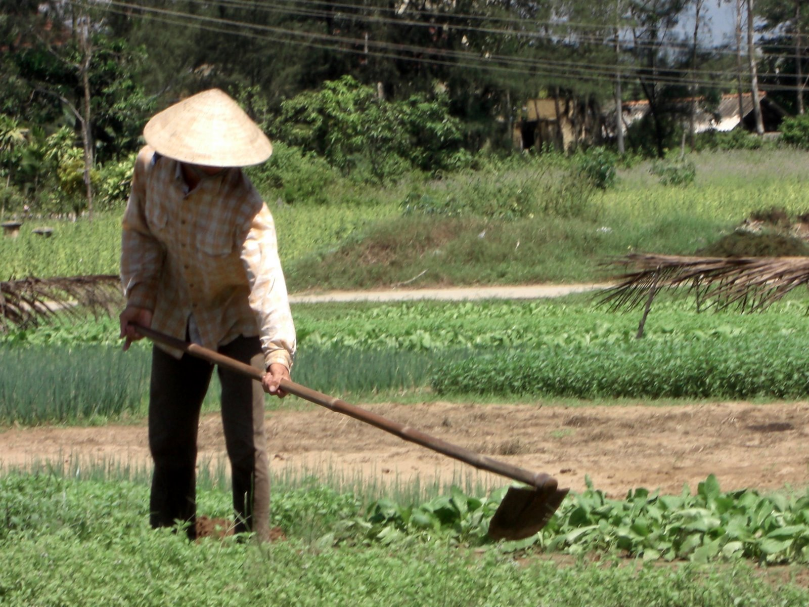 Peasant working in the vegetable garden